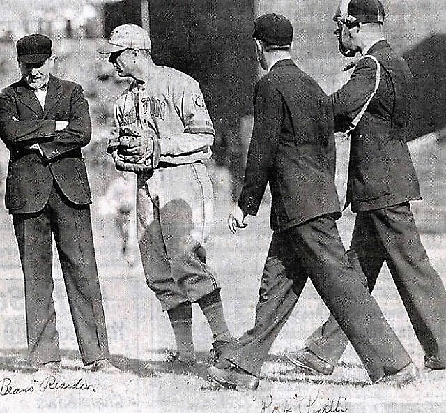 Public Domain Image of Fred Frankhouse and Umpires reacting to an alleged spitball pitch